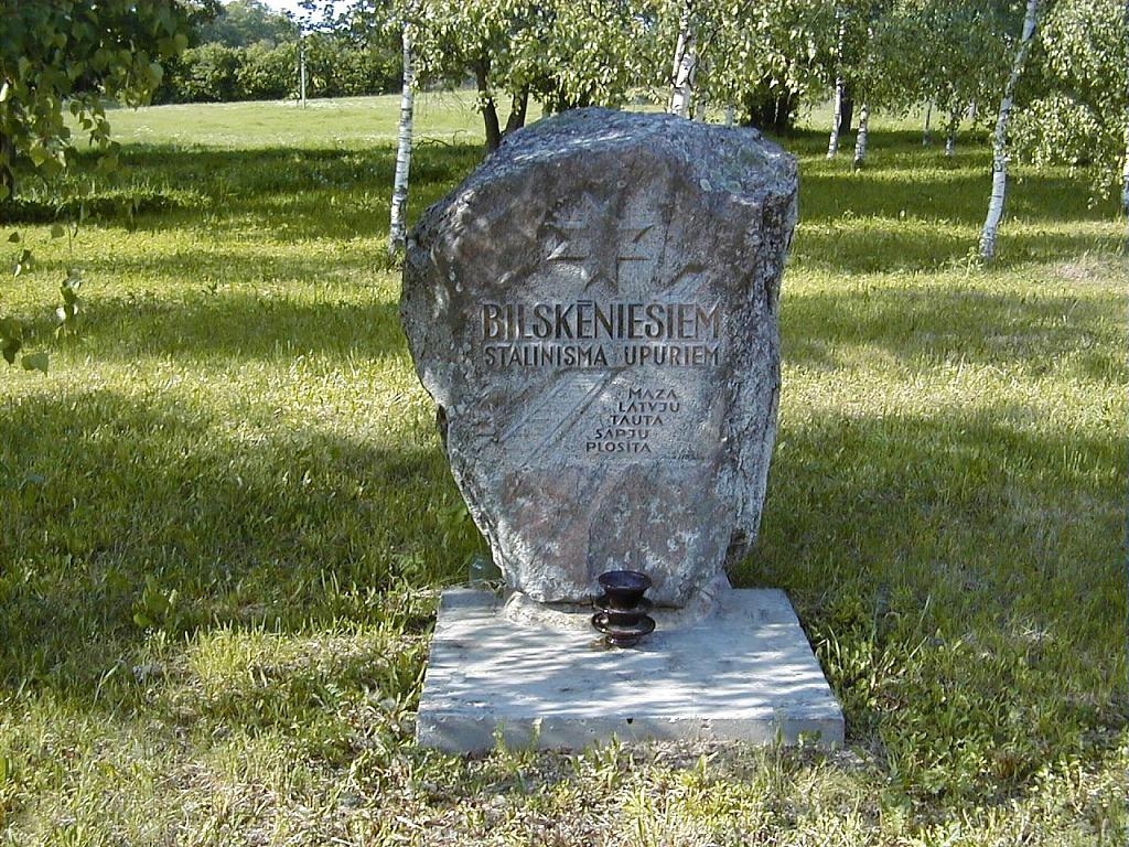 Monument of Stalinism victims in Bilska